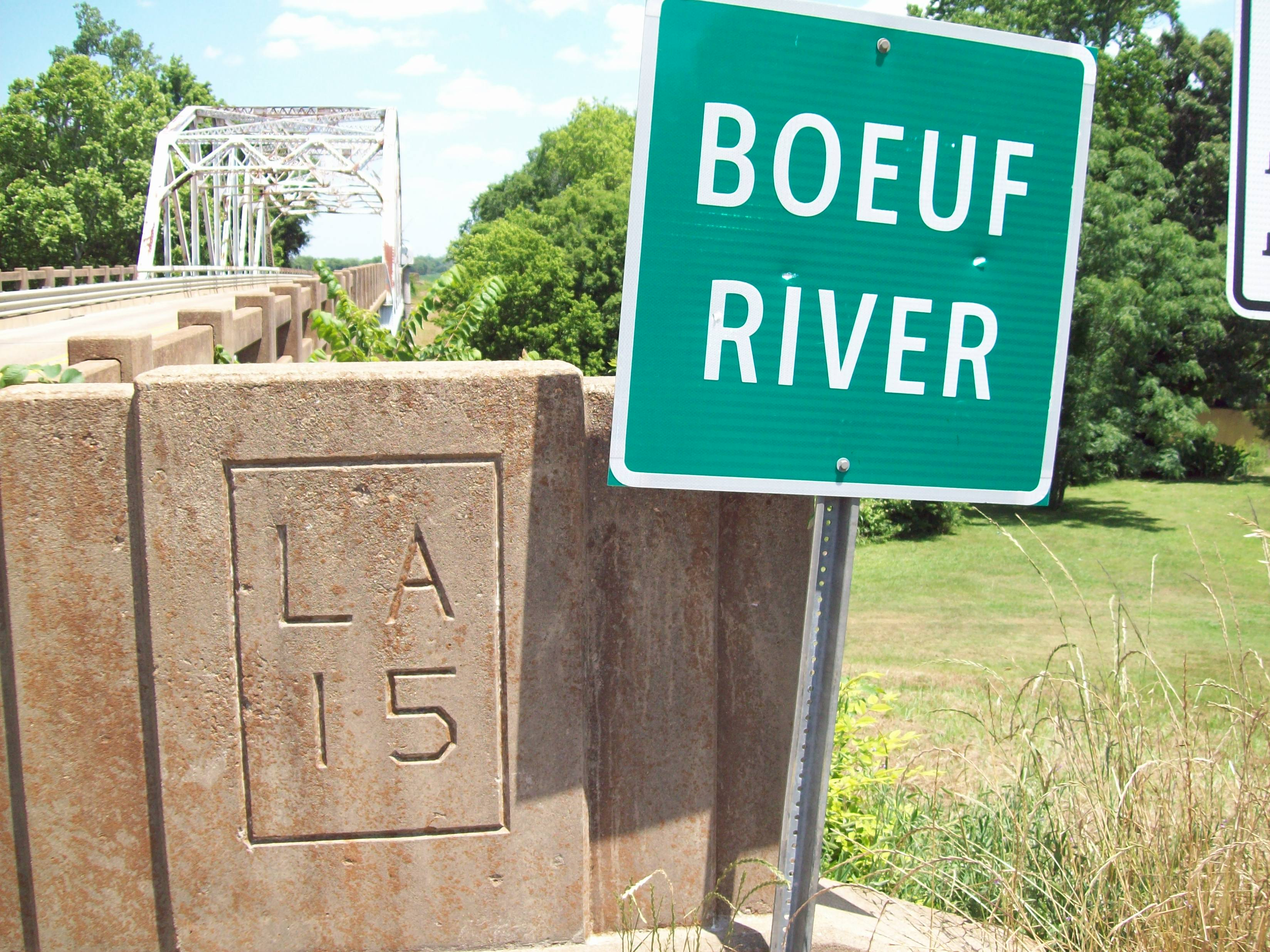 A photo of the LA 15 bridge spanning the Boeuf River, built in 1939.